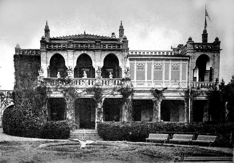 Вилла «Барбо» (Маевка) — имение чешского семейства Крамарж в Мисхоре. Вилла получила название «Маевка» после национализации, а до революции хозяева усадьбы чехи Крамарж называли ее не иначе как Крымский рай — «Барбо». Имение в Мисхоре появилось в 1905–1908 гг., причем возведение здания велось под руководством знаменитого чешского архитектора Яна Котера, а также инженера Е. А. Татаринова. Рядом с виллой находился террасный парк, благоустройством которого занимался известный садово-парковый архитектор Тамаер в 1899 году. Отделку внутренних помещений делали скульптор Стафель и профессор Я. Бенеш.